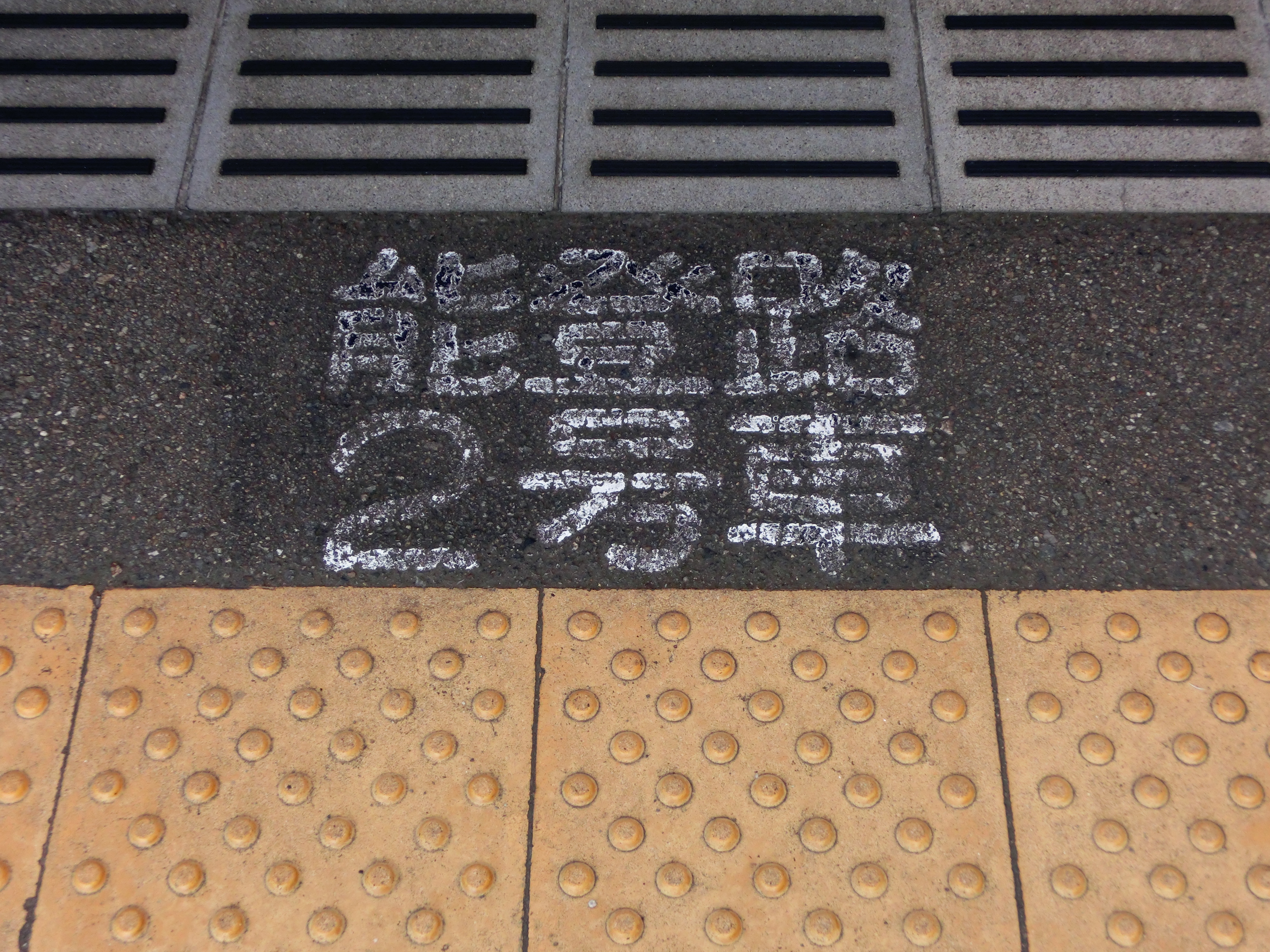 This picture is Express Notoji's boarding location in Kanazawa Station.